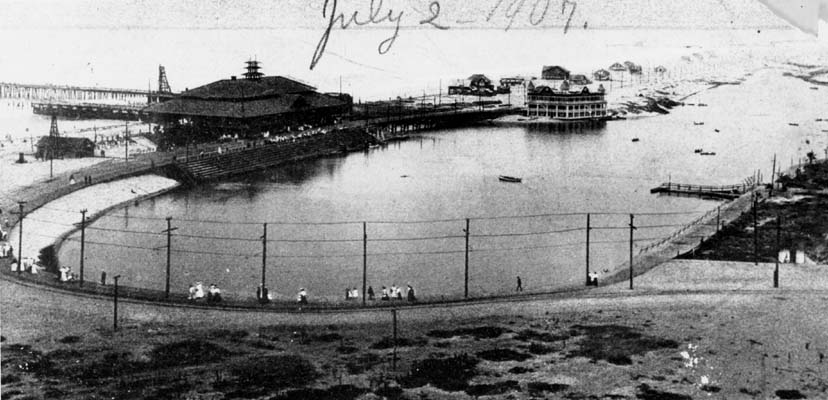 The beach and lagoon at Playa del Rey - at Ballona Creek on Santa Monica Bay. Western L.A. coast on July 7, 1907.